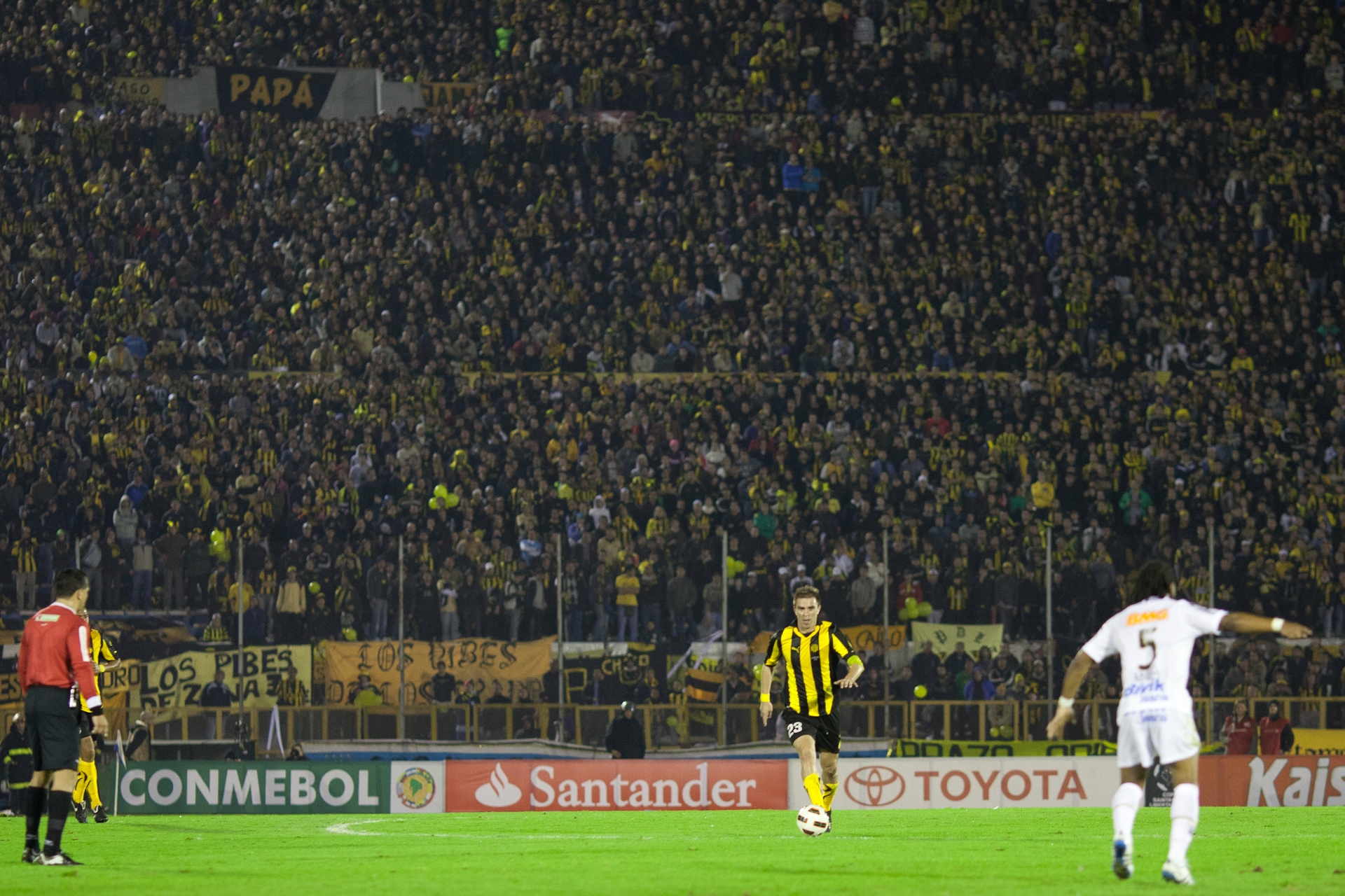 Peñarol player, Valdez, with the ball during the 2011 Copa Libertadores final in the Centenario Stadium of Montevideo.